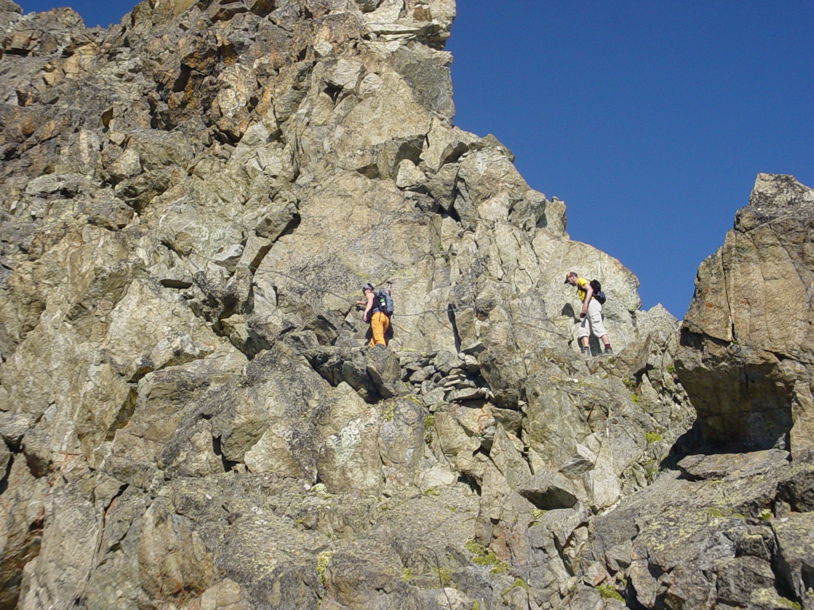 Climbing Piz Güglia / Piz Gelgia / Piz Julier, Grison, Switzerland